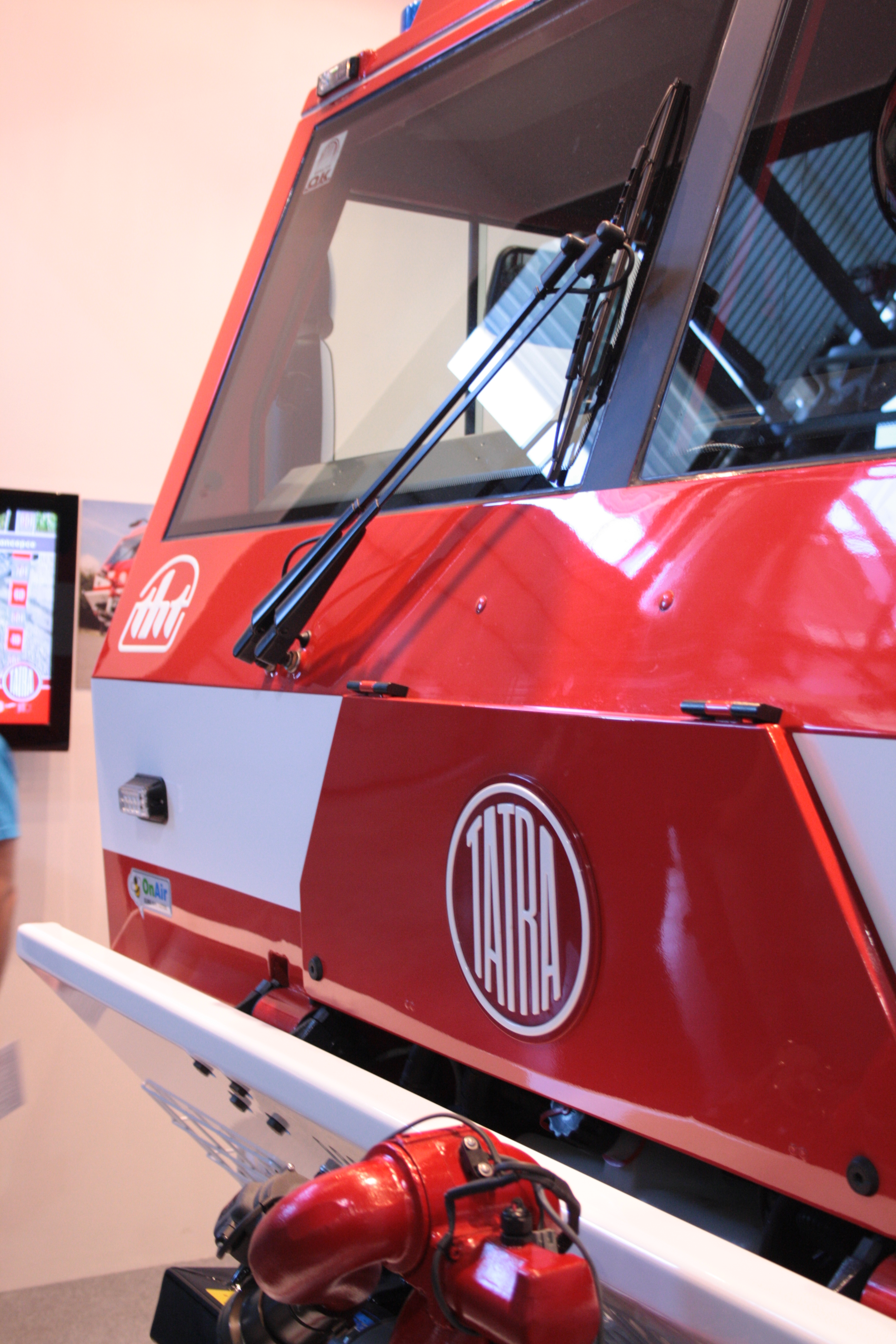 Tatra 815-7 for firefighters. This vehicle is based on its military version and was presented during Autotec 2010 bus, truck and car fair in Brno, CZ This photograph was taken with a DSLR from WMCZ's Camera grant.